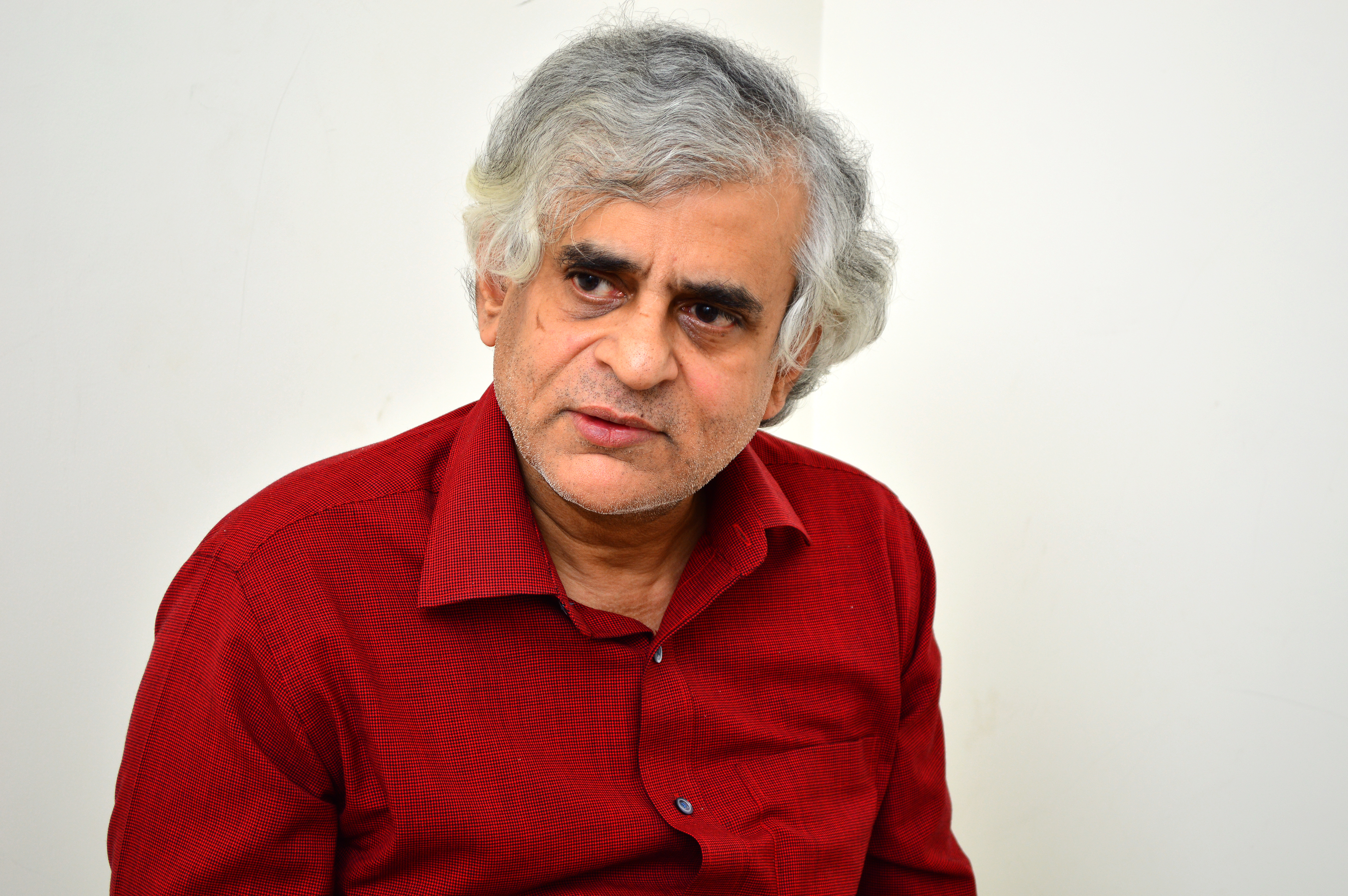 P Sainath